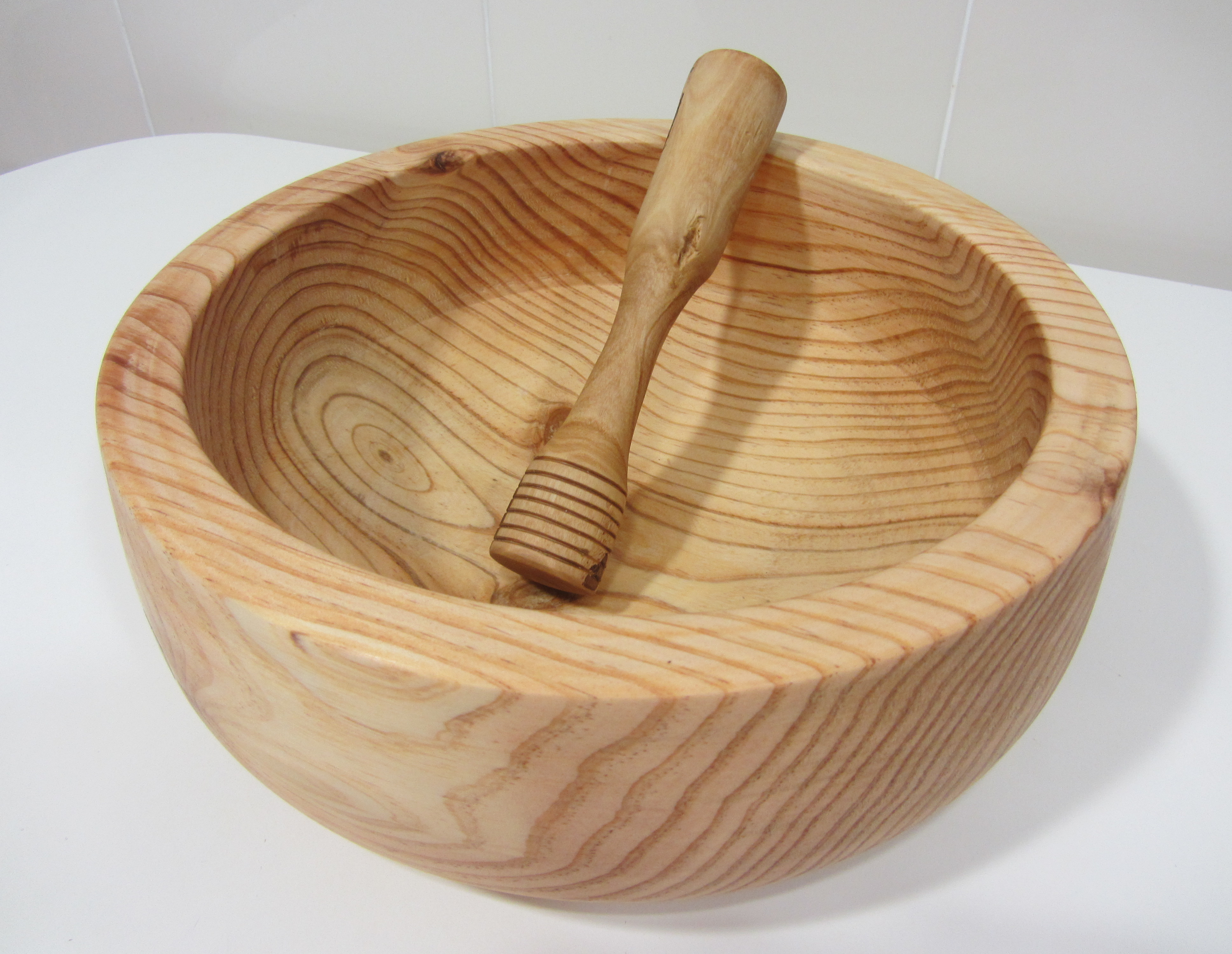 Wooden mortar in kitchen tool of Spain